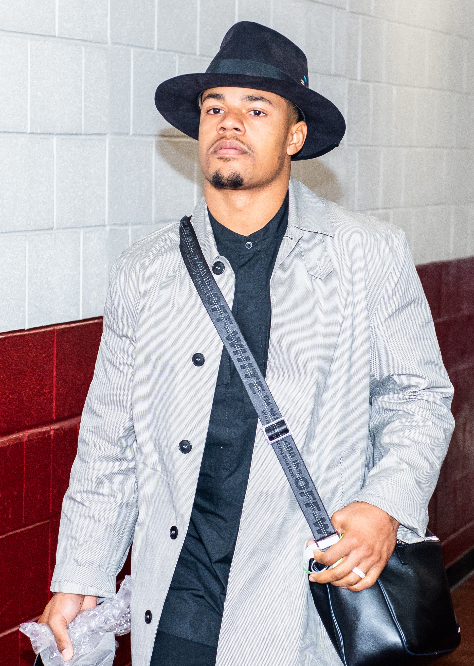 In 2019